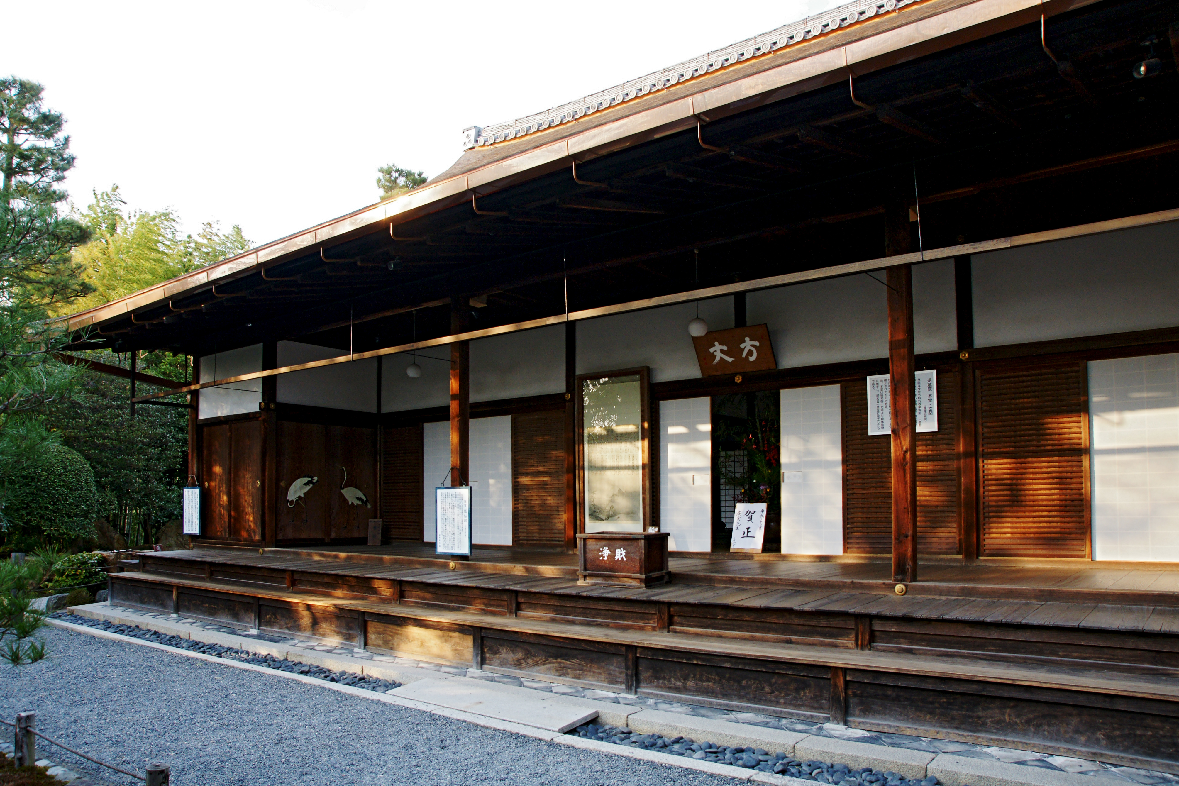 Myoshinji Taizoin, Kyoto, Kyoto prefecture, Japan